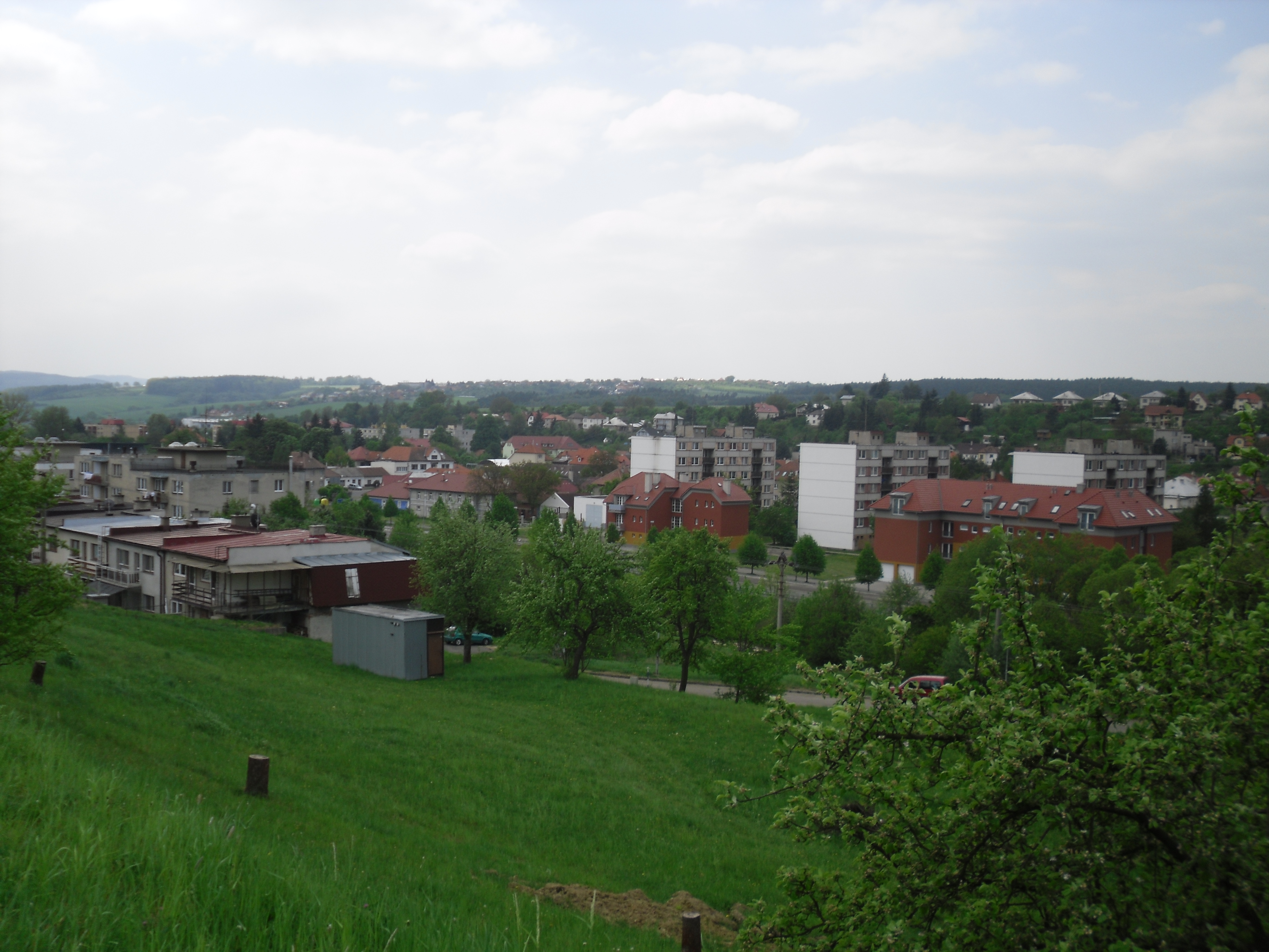 Slušovice (Zlín District), Czech Republic - view of the urban area